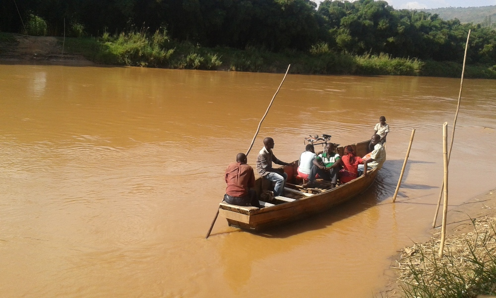 The traditional boat in Nyabarongo river This is an image with the theme "Africa on the Move or Transport" from: Rwanda